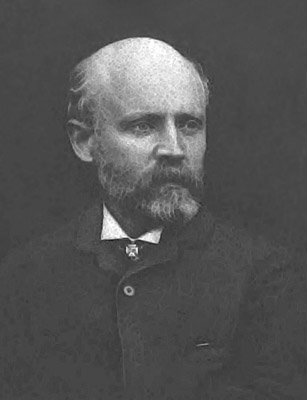 Photograph (frontispiece) of book in the public domain.